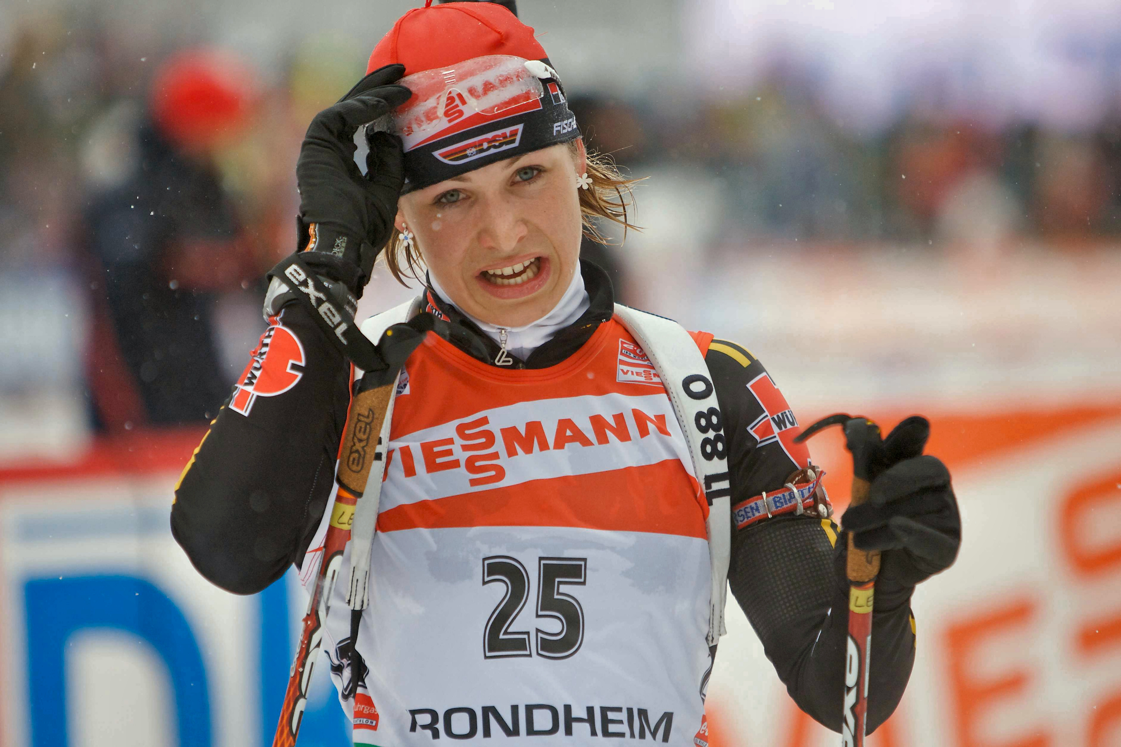 German biathlete Magdalena Neuner at the World Cup in Trondheim, Norway, March 2009